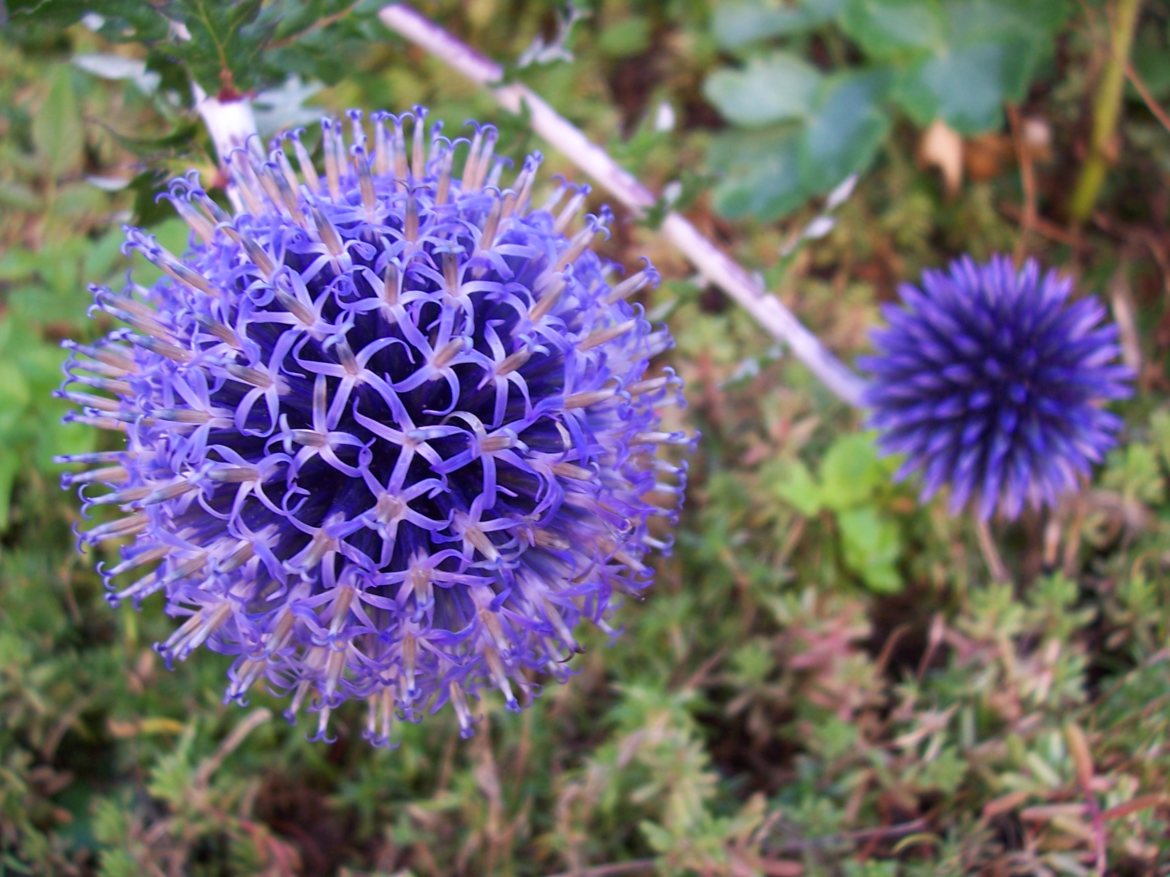 Flower (Echinops) in Ain (east of France), august 2005